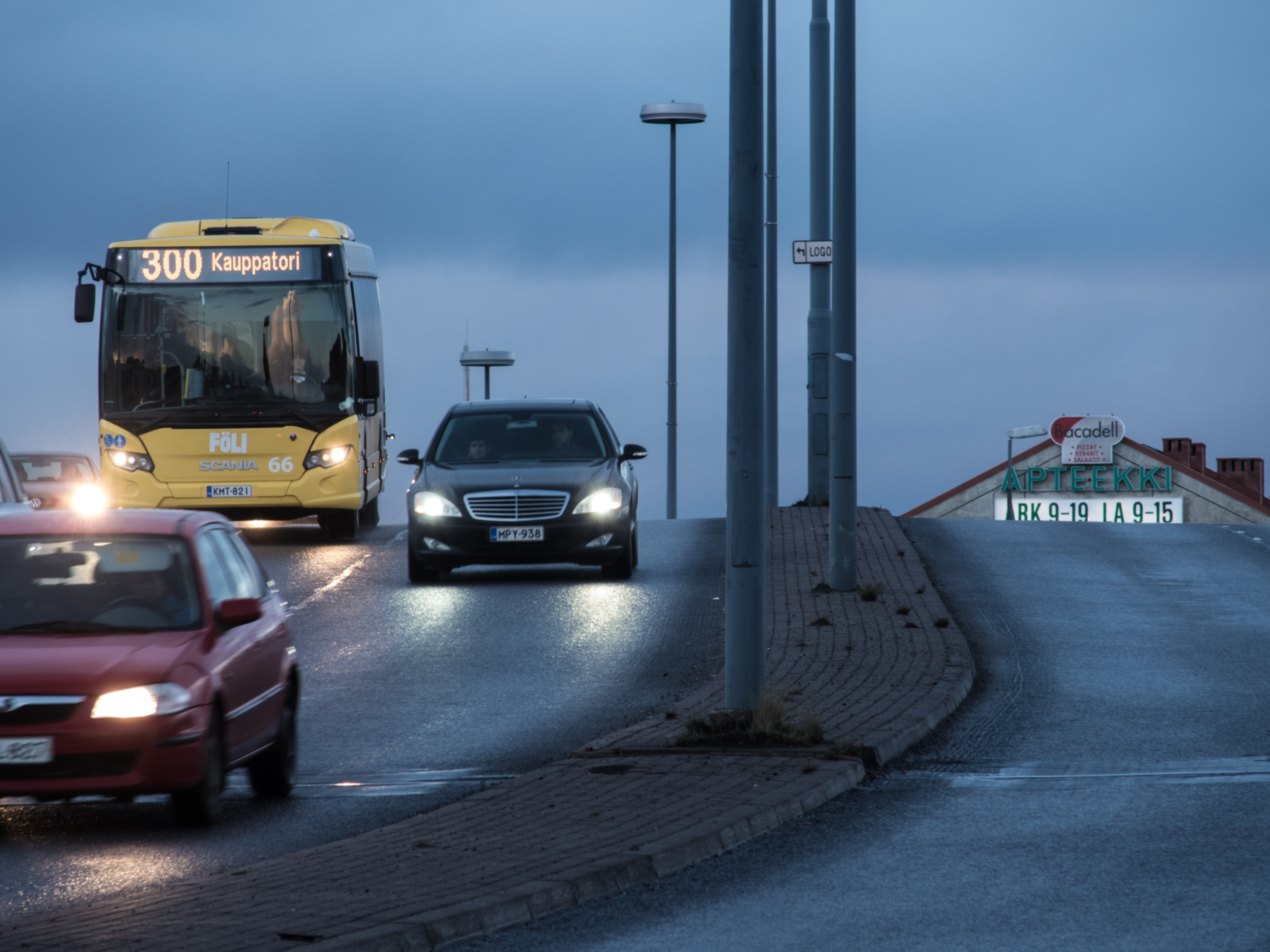 Aninkaistensilta in Turku, Finland, crosses the railroad yard. December 2014.